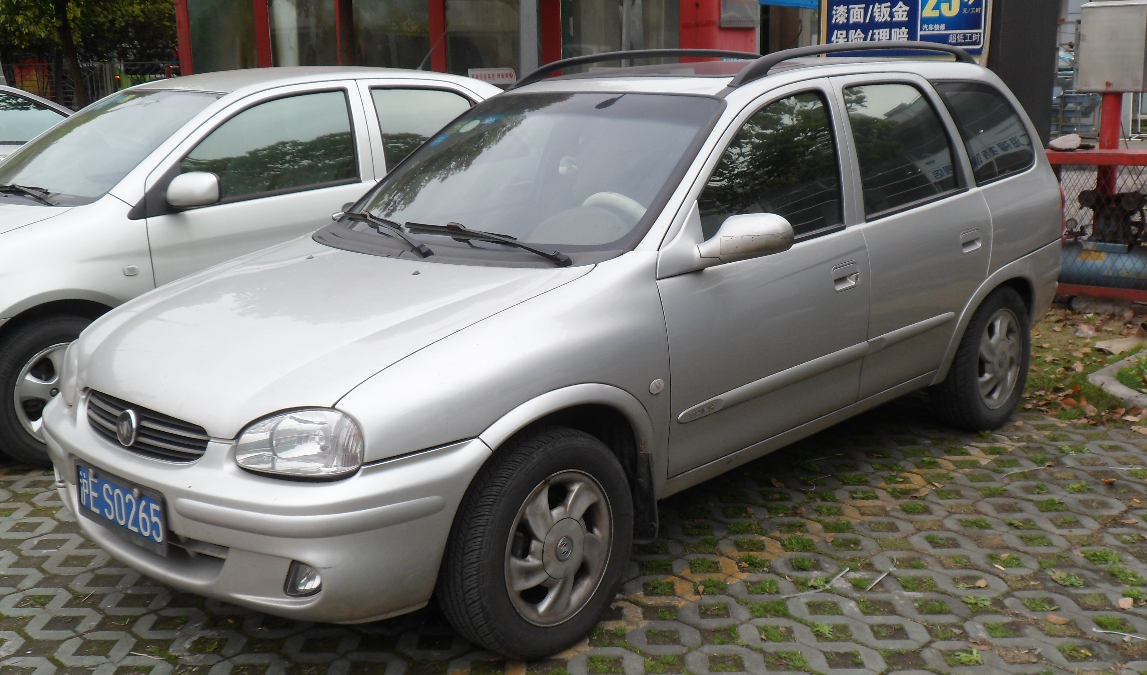 Buick Sail SRV photographed in Shanghai, China.